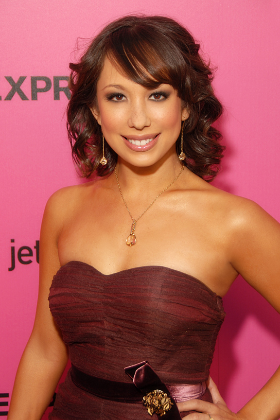 Cheryl Burke attending "The 6th Annual Hollywood Style Awards" Beverly Hills, CA on Oct. 10, 2009 - Photo by Glenn Francis of